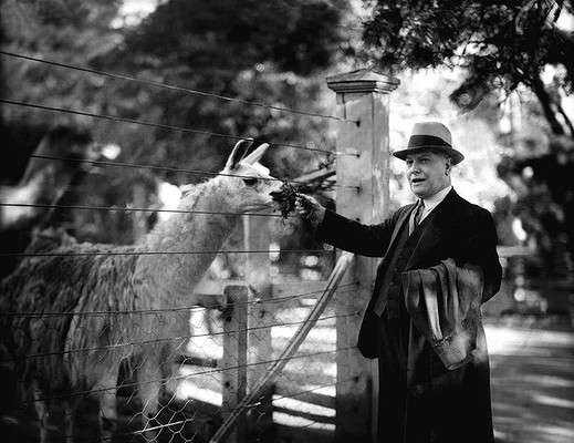 Mr. Tunnecliffe, President of the Zoological Board, Melbourne Zoo, patting a llama.